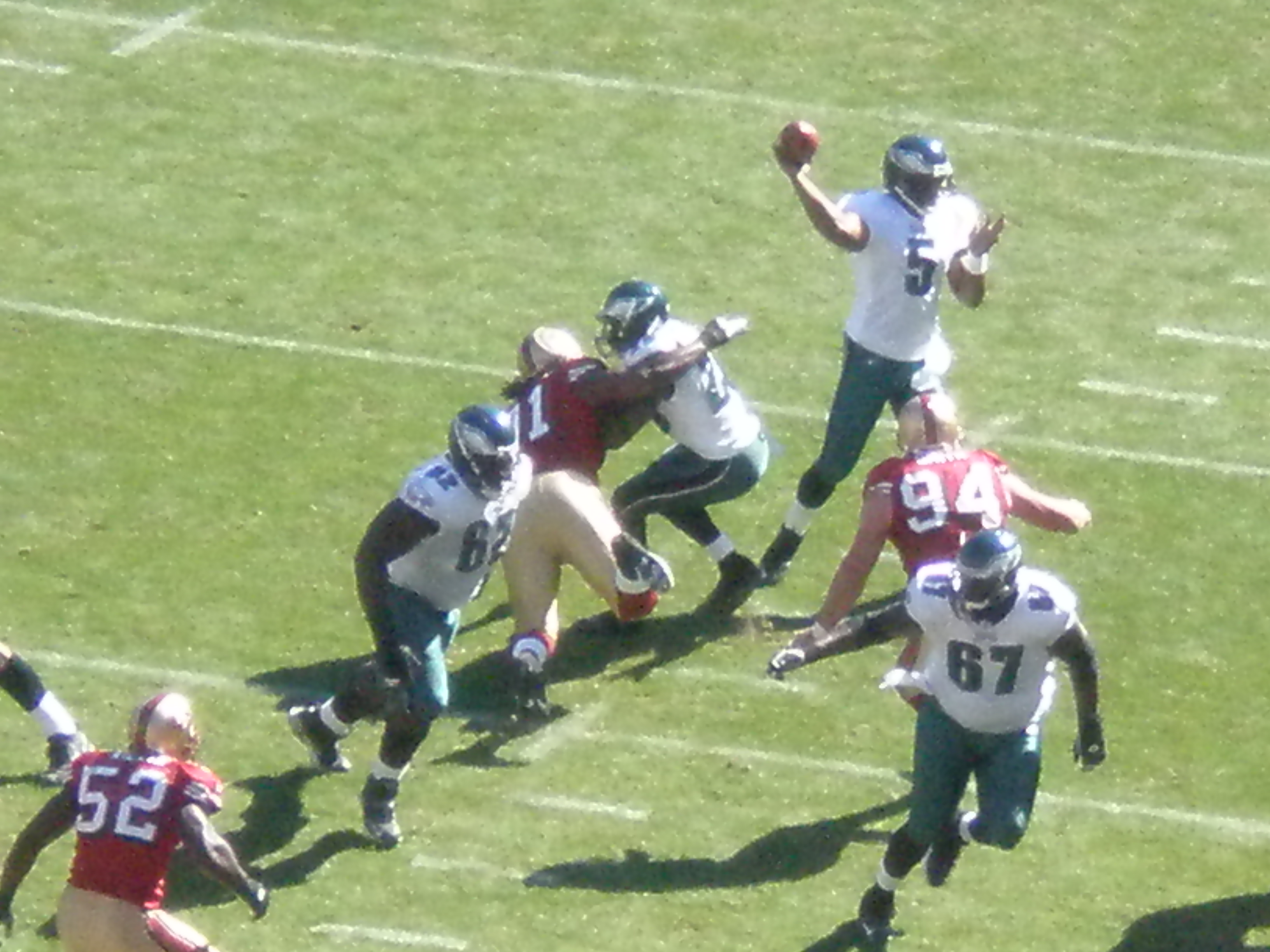 Philadelphia Eagles quarterback Donovan McNabb passes for a touchdown during a regular season game against the San Francisco 49ers. The Eagles won 40-26.